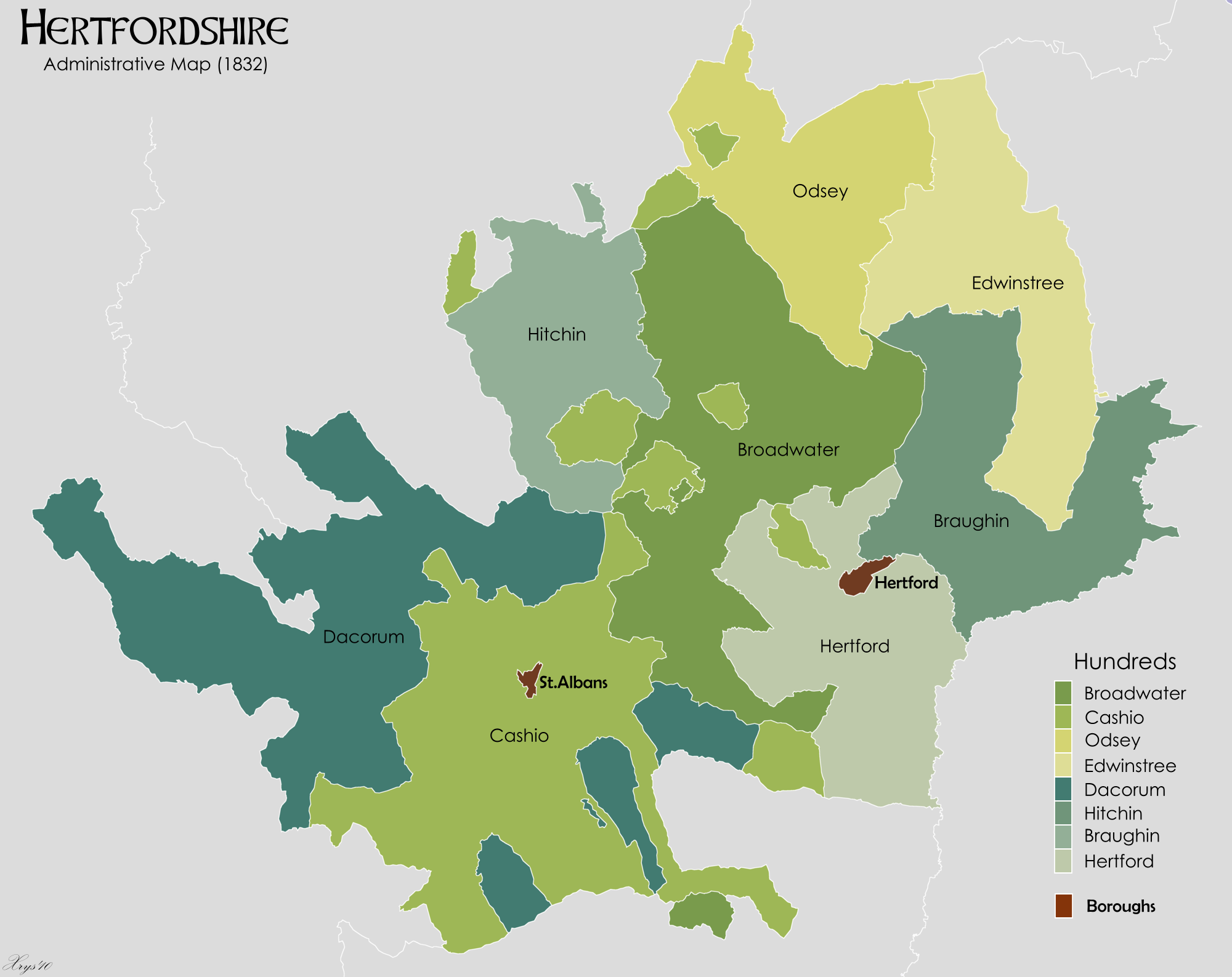 Administrative map of the ancient county of Hertfordshire in 1832. Showing Hundreds and Boroughs. Source data on parish boundaries - Kain, R.J.P., and Oliver, R.R. (2001) "Historic parishes of England and Wales: Electronic Map - Gazetteer - Metadata", Colchester: History Data Service. ISBN 0 9540032 0 9. Source data for Boroughs: H.M.S.O. Boundary Commission Report 1832 (courtesy of